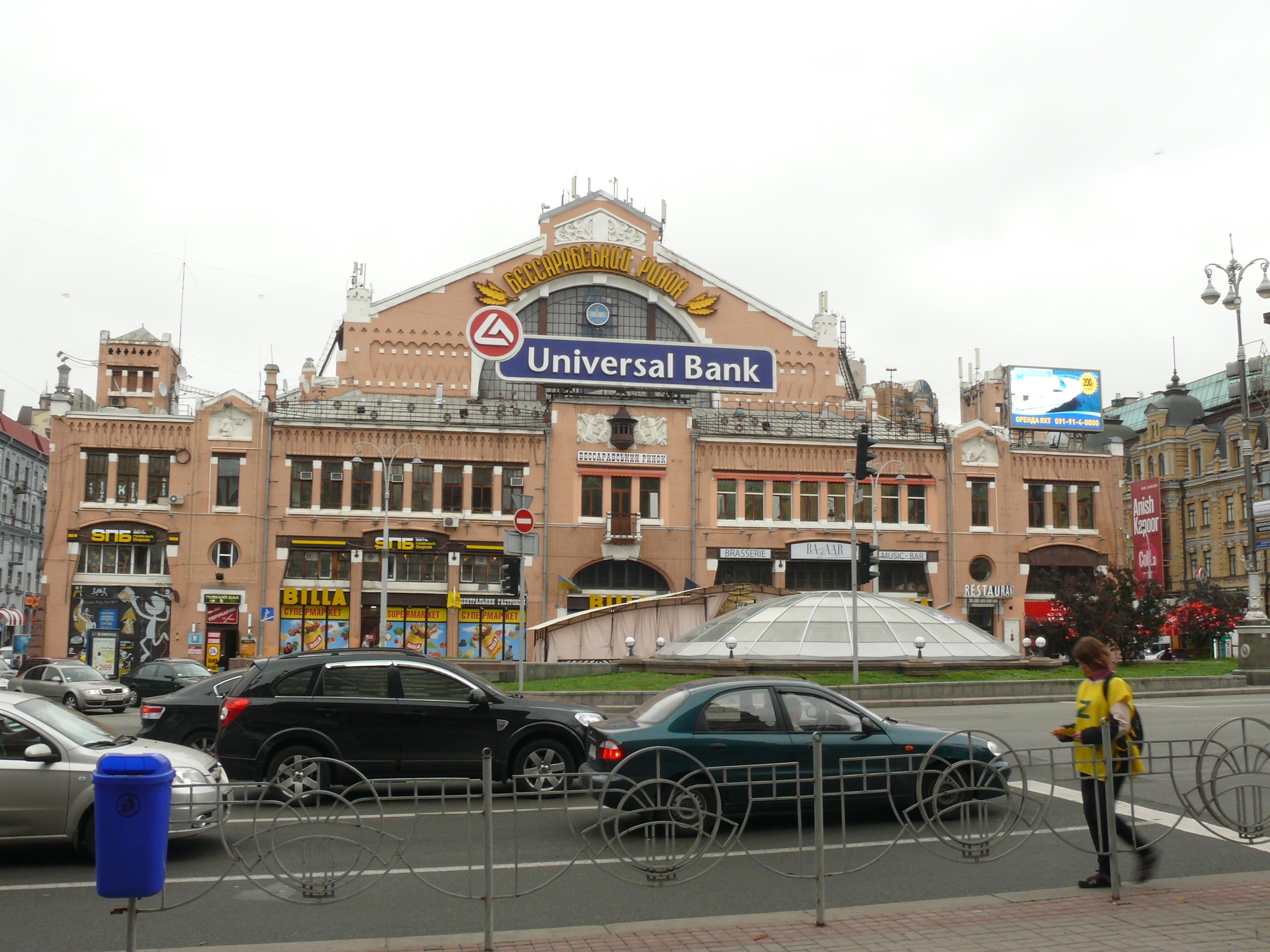 Bassarabsky market in Kiev, Ukraine